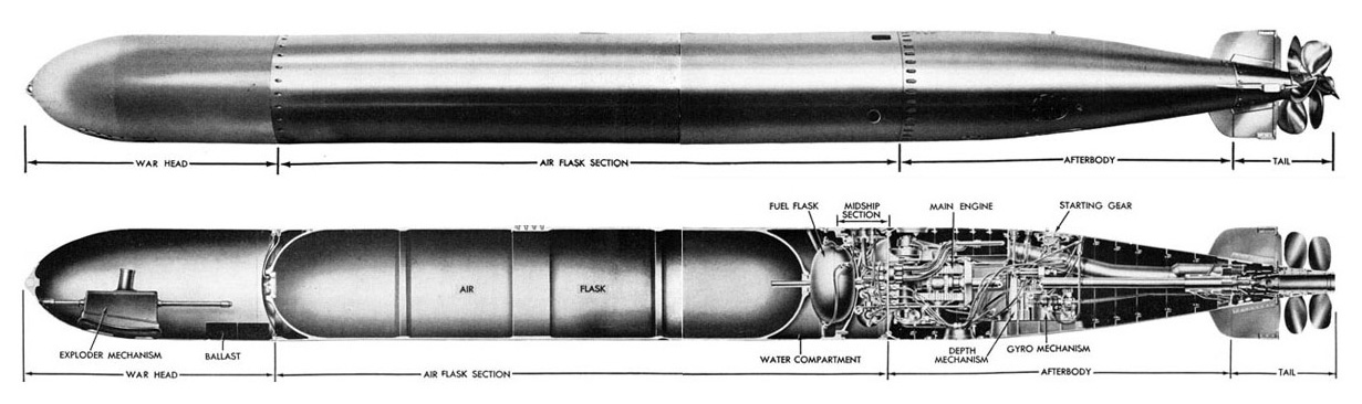 Mark 14 torpedo's side view and interior mechanisms, published in "Torpedoes Mark 14 and 23 Types, OP 635", March 24, 1945